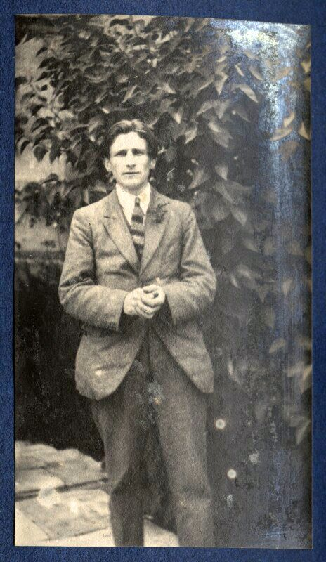 Edmund Blunden by Lady Ottoline Morrell, vintage snapshot print, 1923